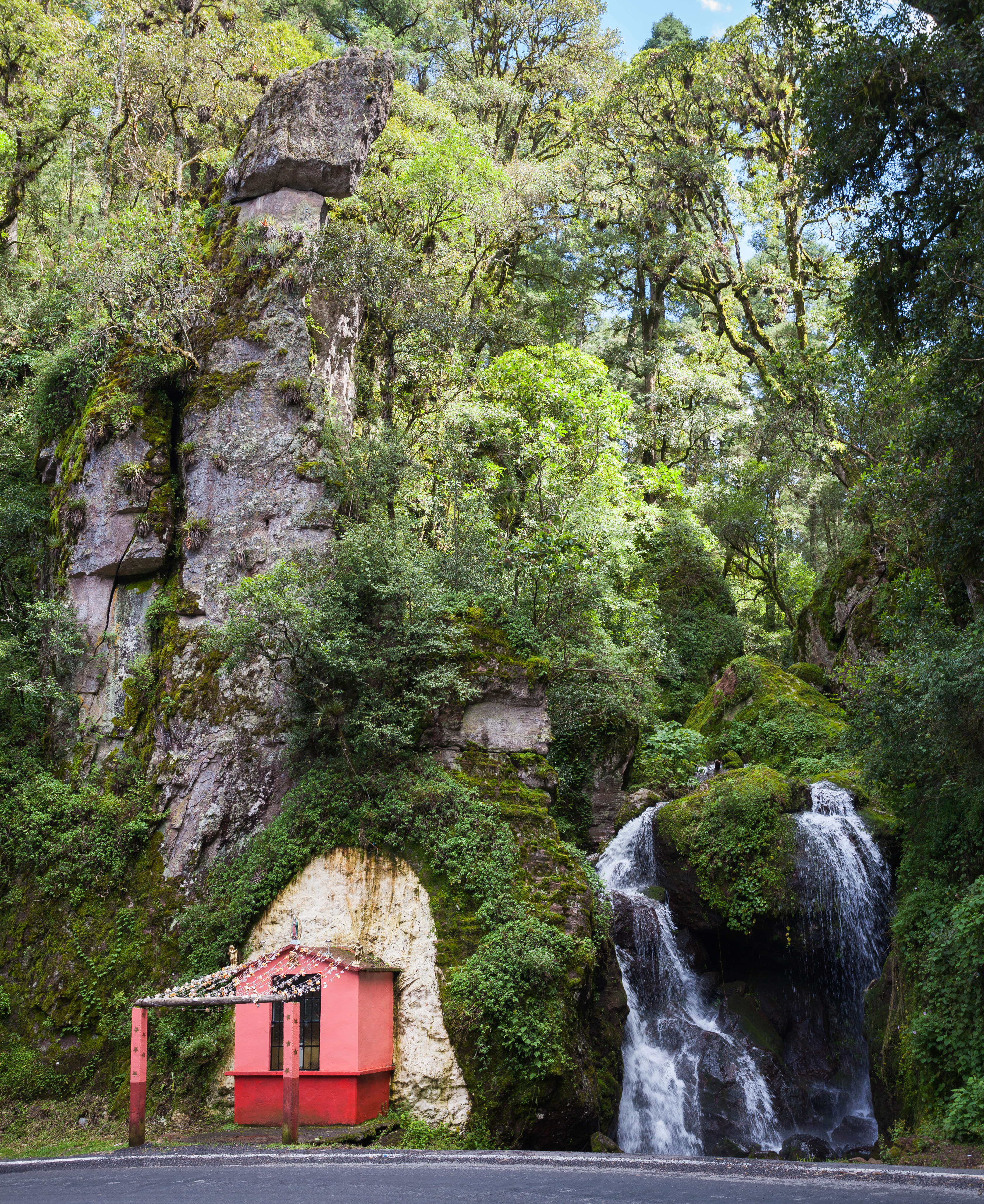 Chapel near Mineral del Chico, Hidalgo, Mexico